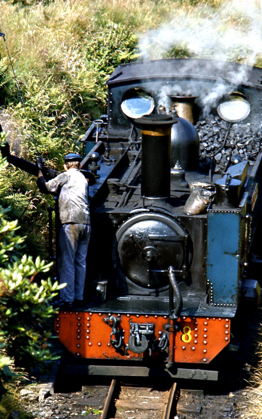 Vale of Rheidol railway locomotive taking on water at Pont yr Fynach, Ceridigion, over the River Rheidol.